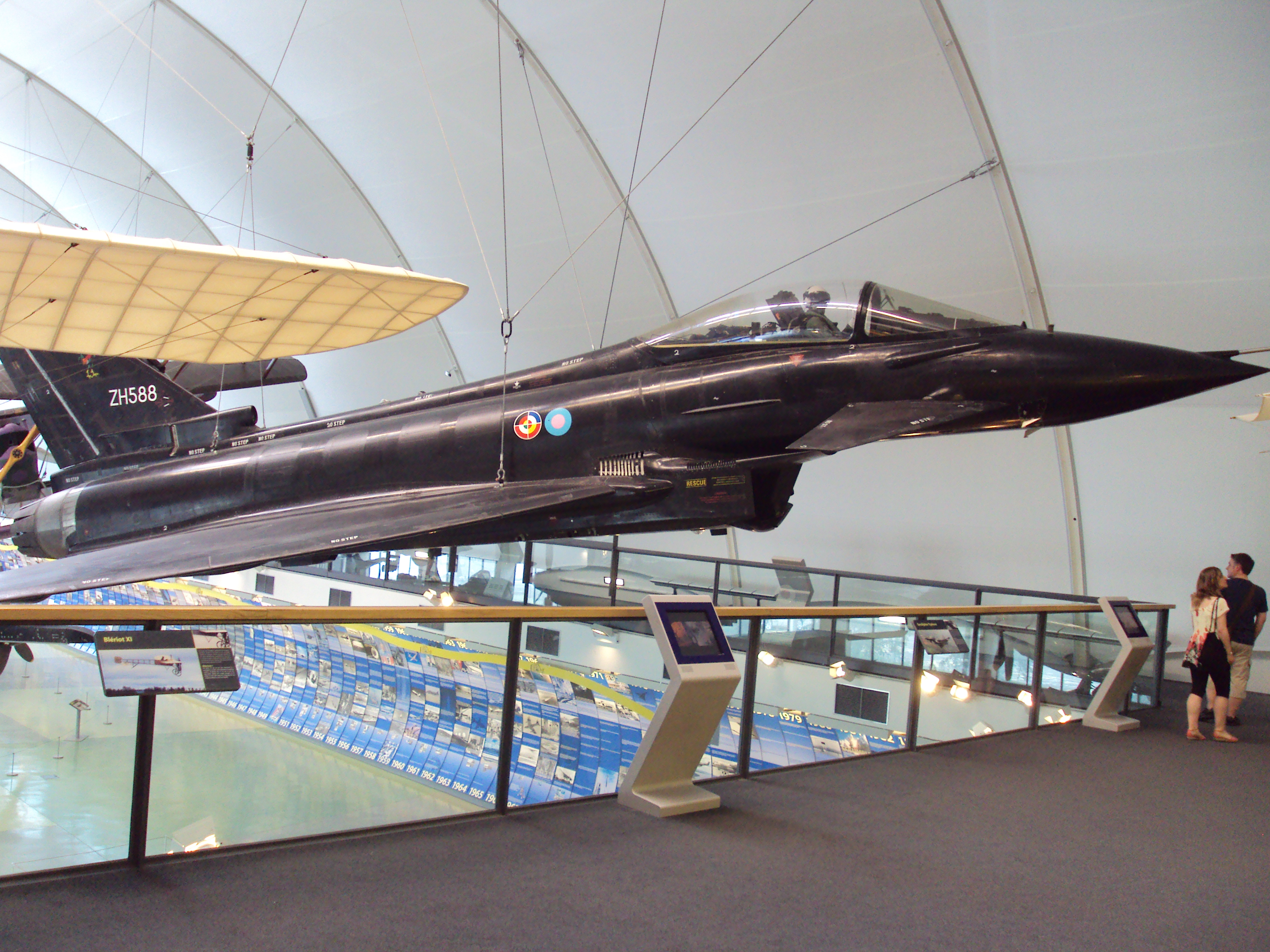 Eurofighter Typhoon at the RAF Museum, Colindale, London.